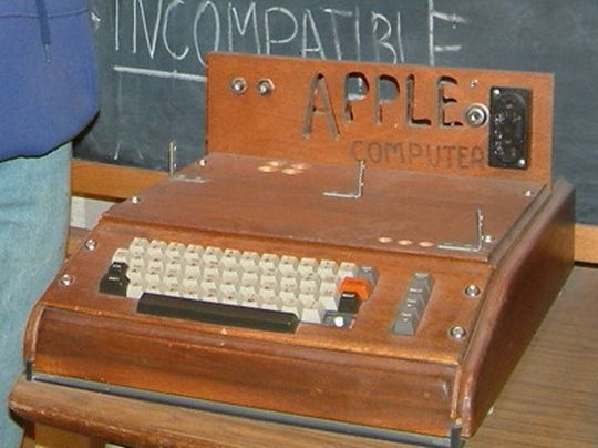 Apple I at the Smithsonian Museum